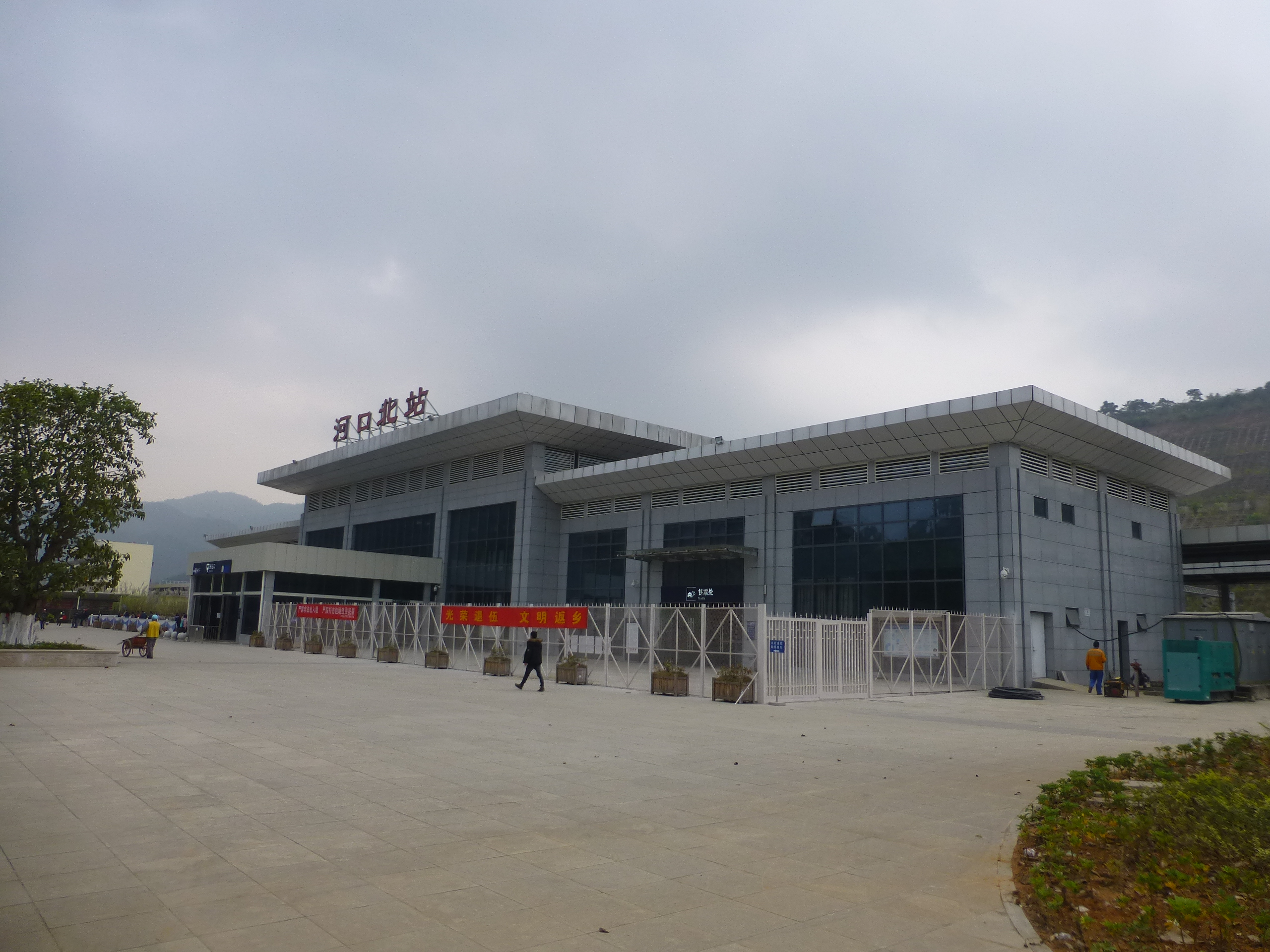 The new Hekou North (Hekoubei) Railway Station, on the standard-gauge Kunming-Yuxi-Hekou Railway